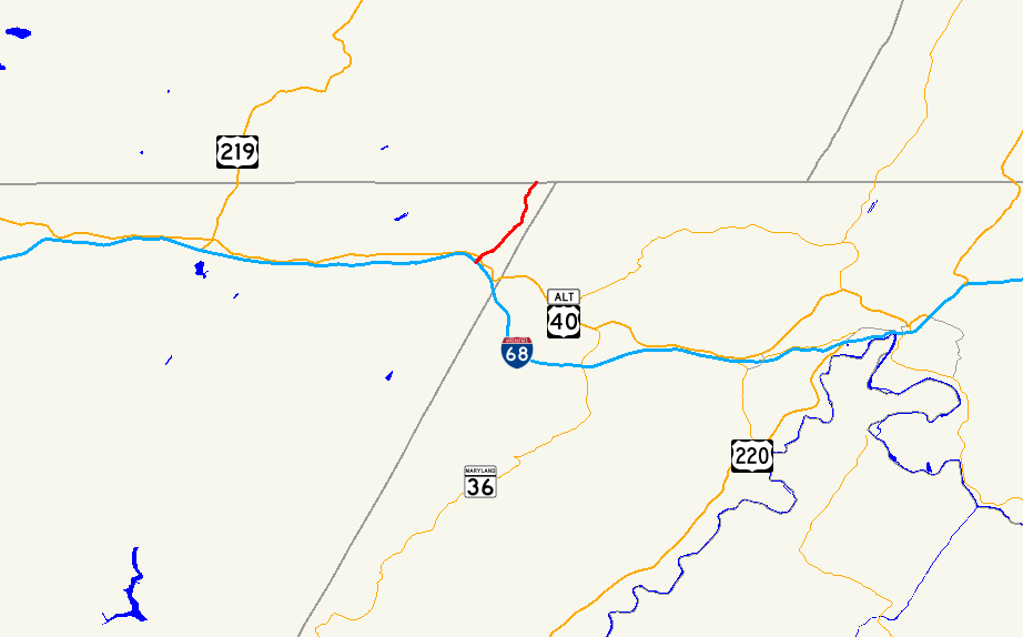 Map of Maryland Route 546